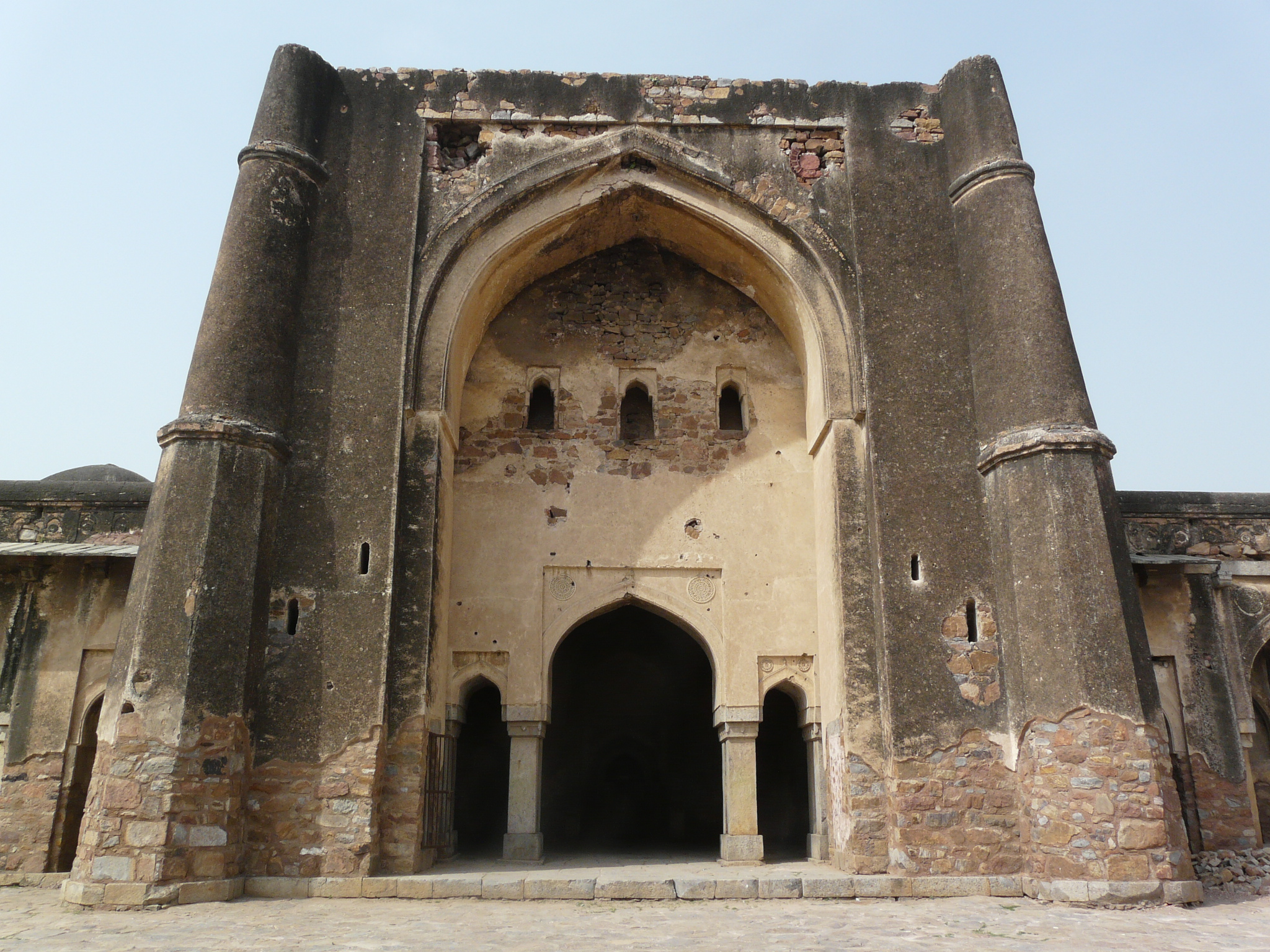 Central Pistaq on west side of Begumpur Mosque